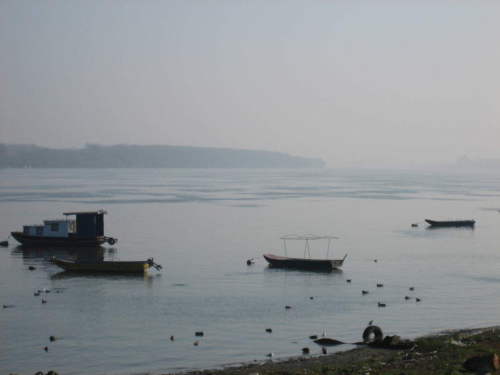 Danube river in Zemun, Belgrade, Serbia